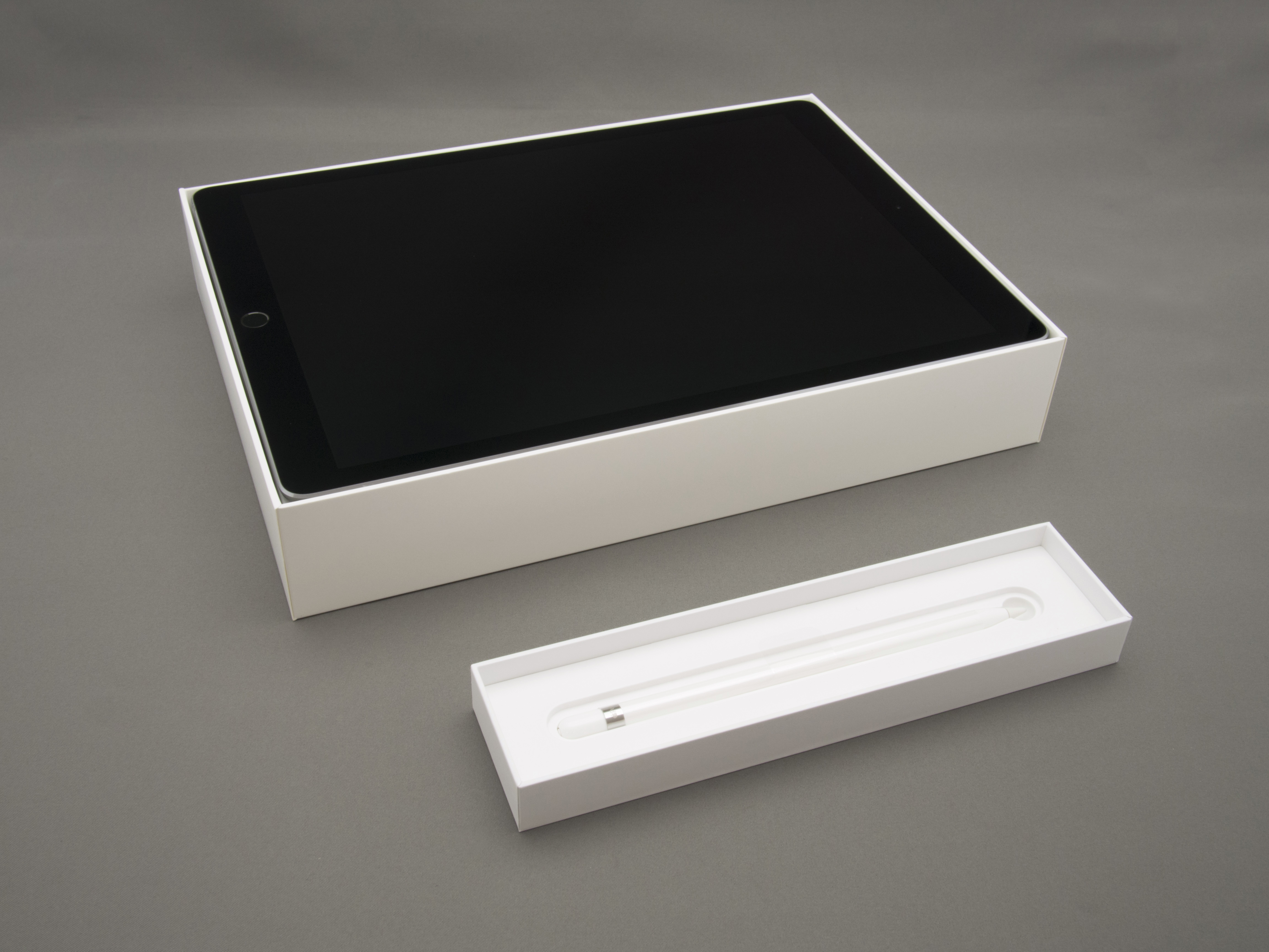 Photo of a boxed iPad Pro and a boxed Apple Pencil